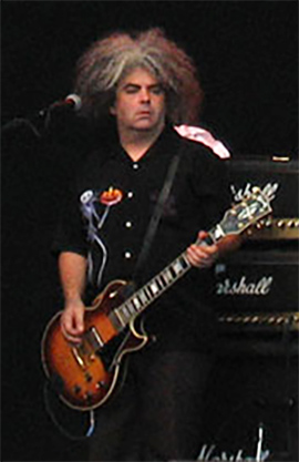 Fantômas, Ruisrock 2005